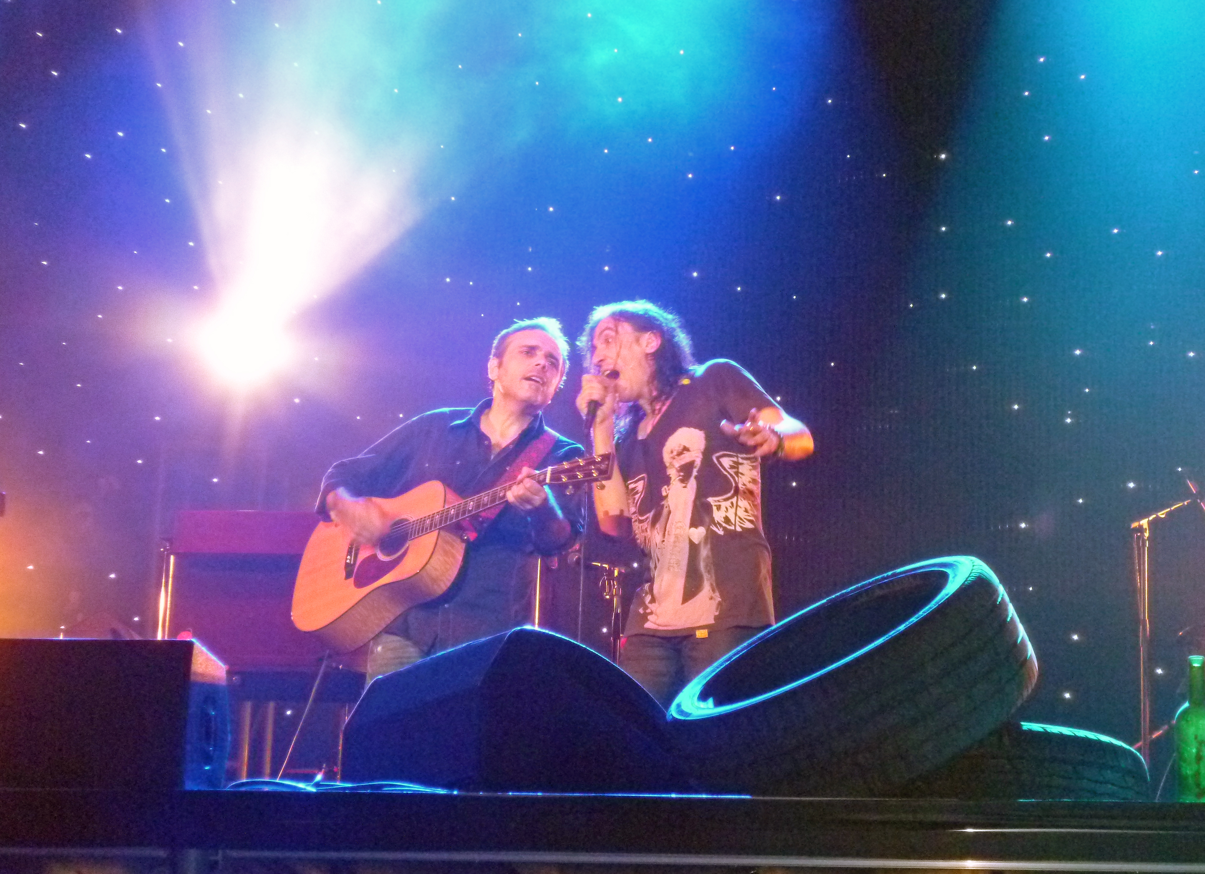 Sopa de Cabra 25th anniversary tour, 2011. Josep Thió and Gerard Quintana on stage at the Pavello Fontajau, Girona, during the last concert of the tour.